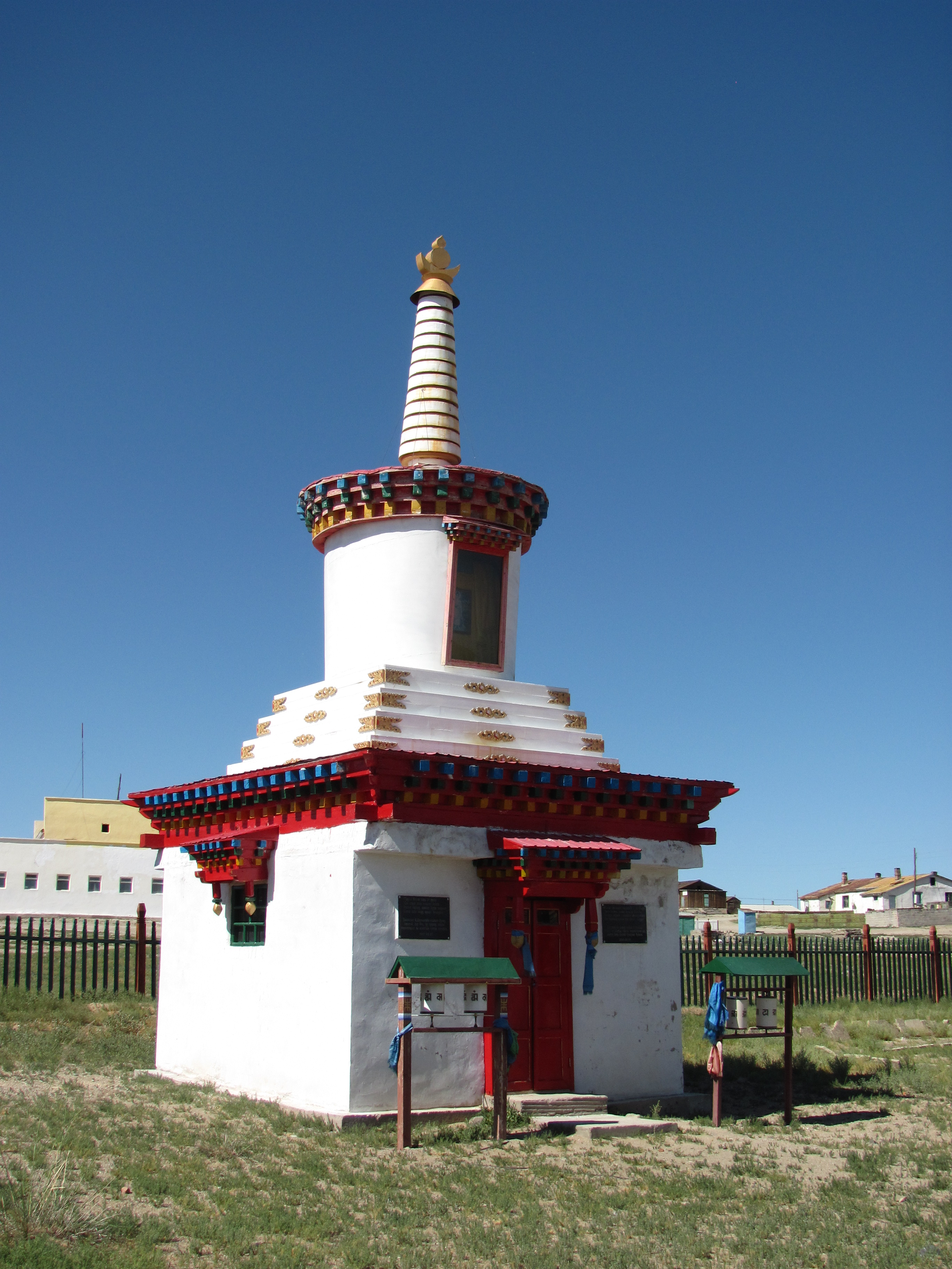 Stupa in Erdenedalai, Dundgov Aimag, Mongolia.